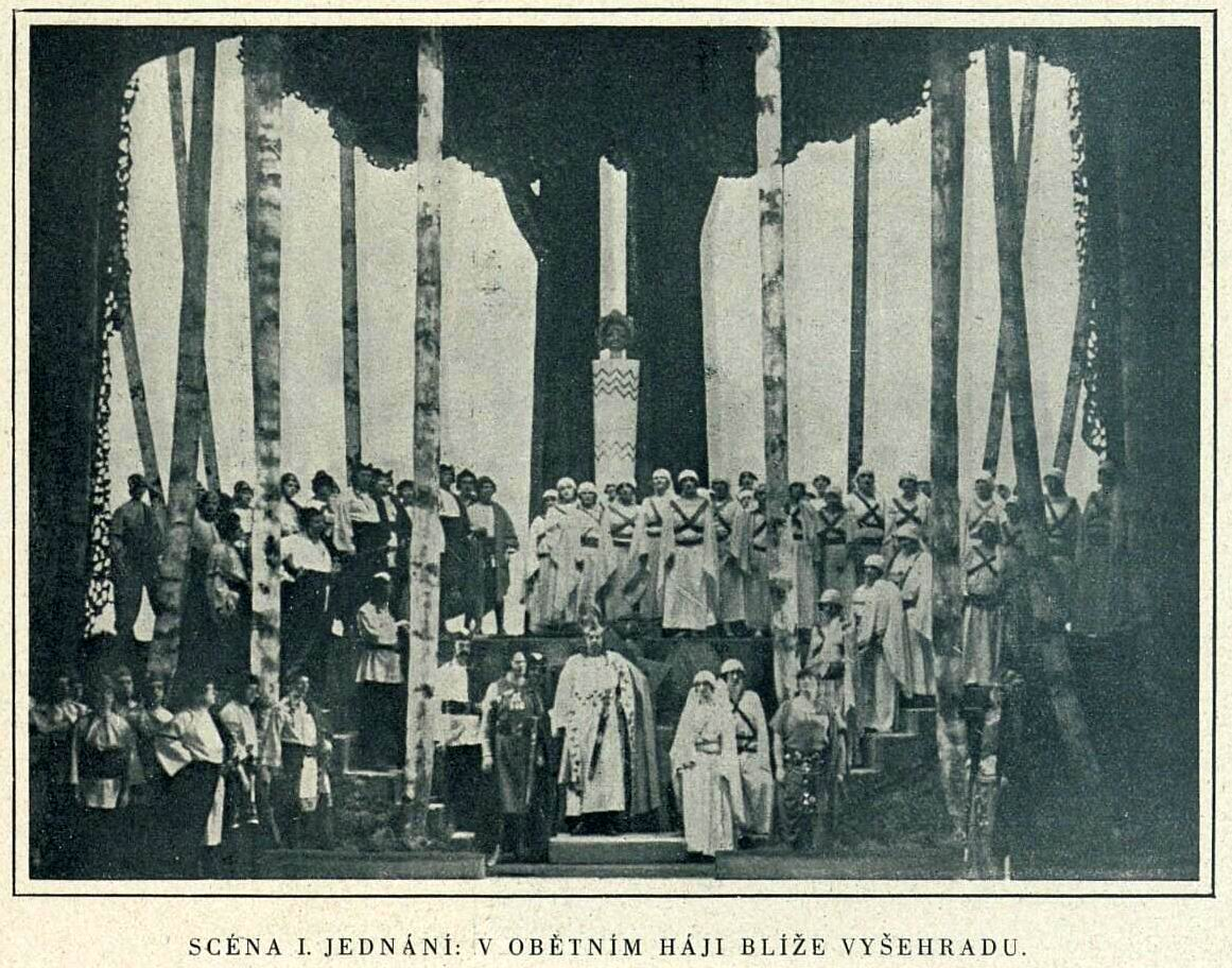 Zdeněk Fibich: Šárka performance in the National theatre Prague, 1925